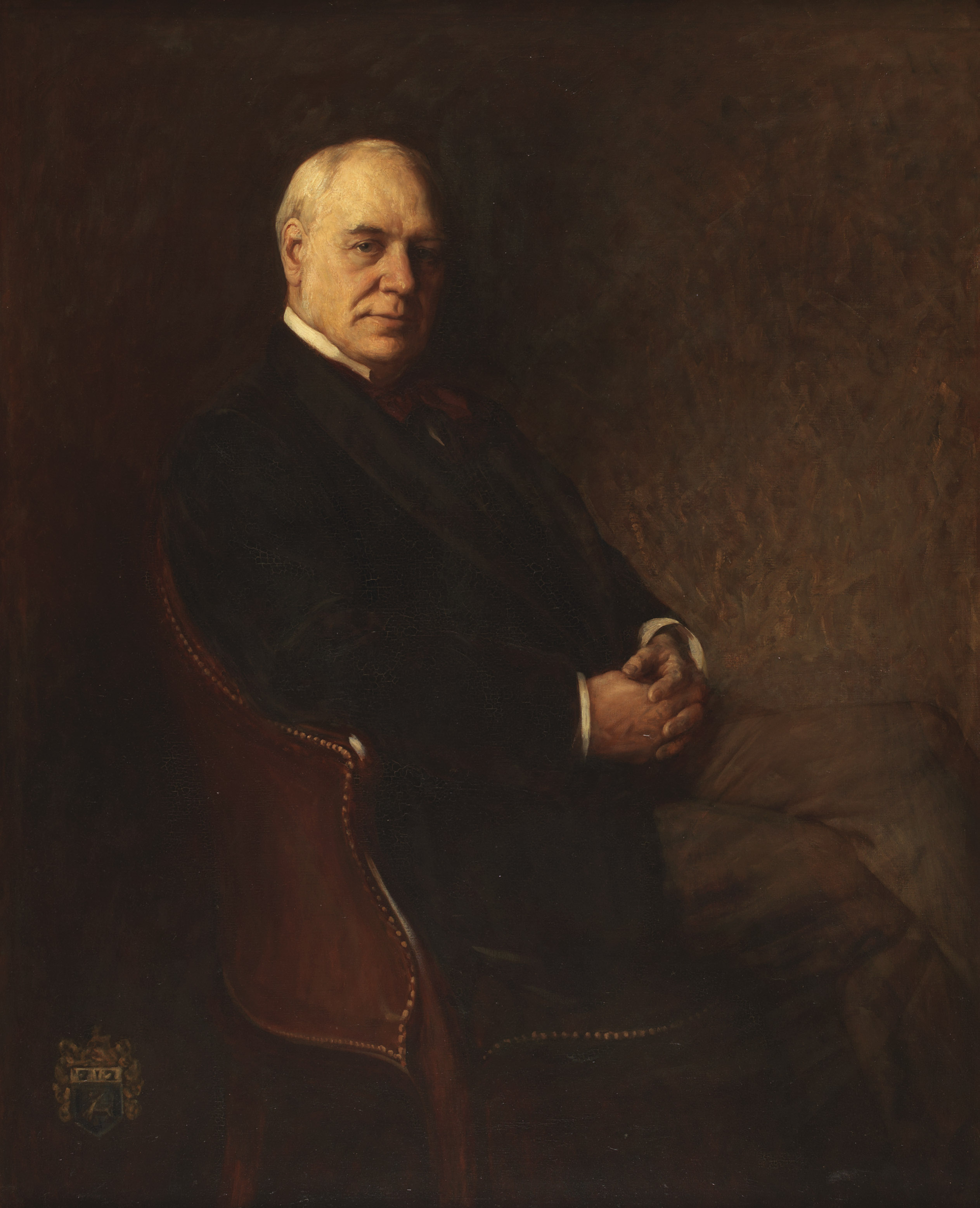 Formal portrait of Sir John Williams (1840-1926), founder of the National Library of Wales